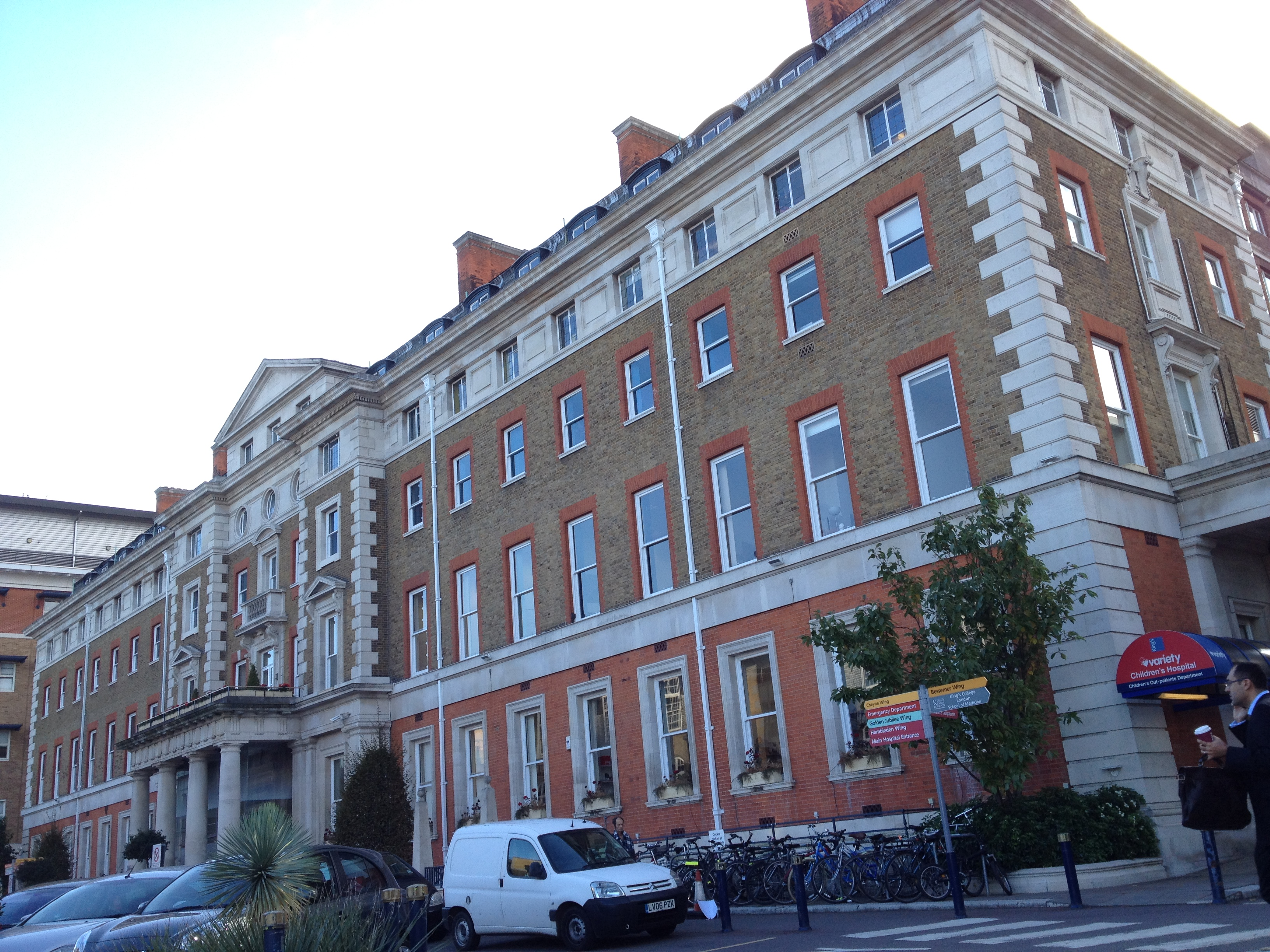 King's College Hospital1